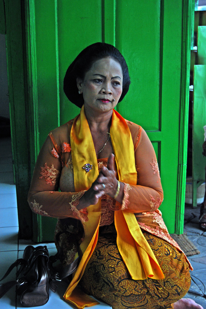 A sinden is a term for a female singer which is commonly used in Java. This lady is one of the street performers which can be seen around Solo/Yogyakarta. They will entertain you with an old Javanese song while you're having meal in a food stalls around the city area. Of course small contributions will mean a lot to her. :-)